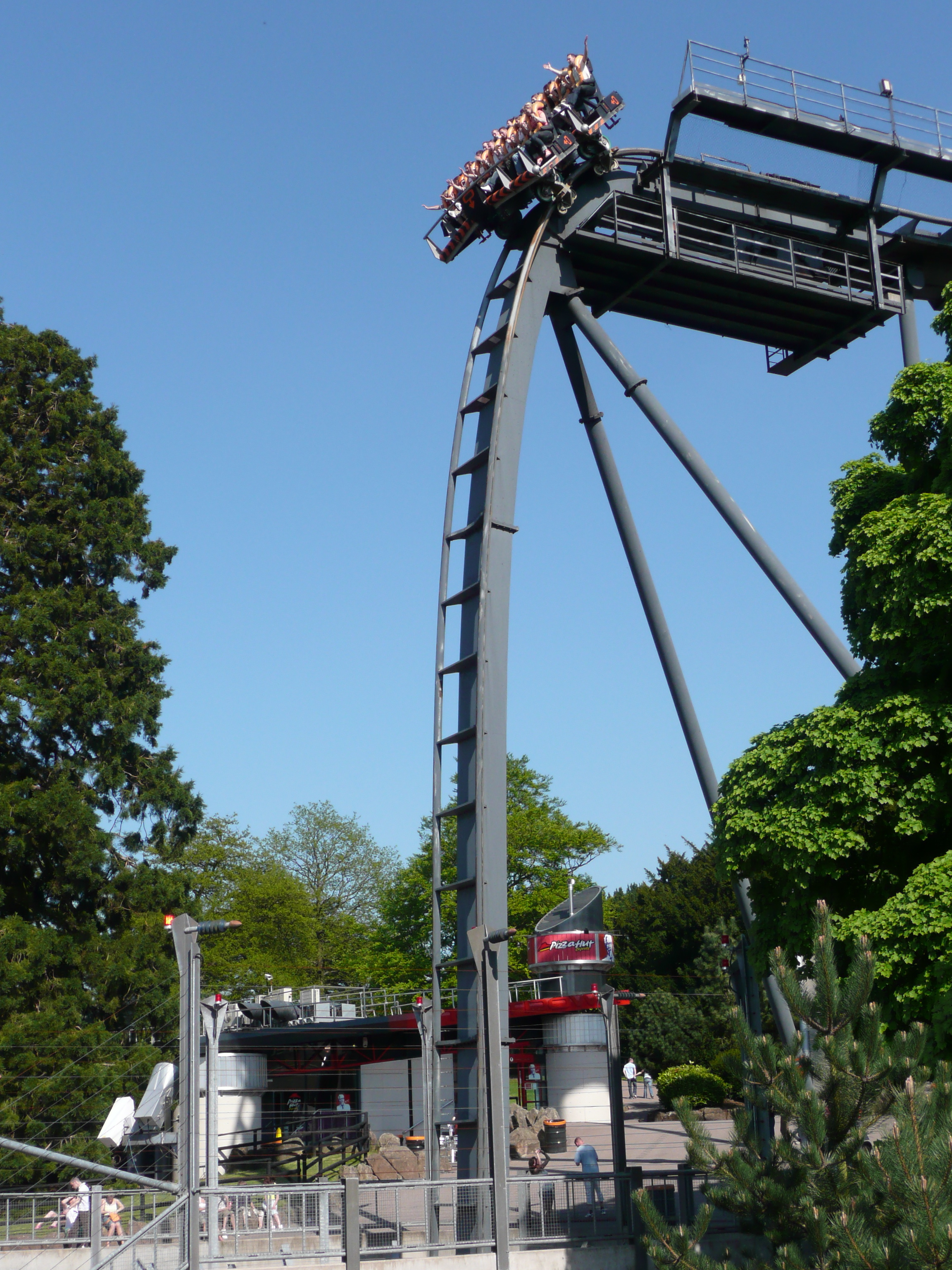 Photograph of the vertical drop section of Oblivion at Alton Towers